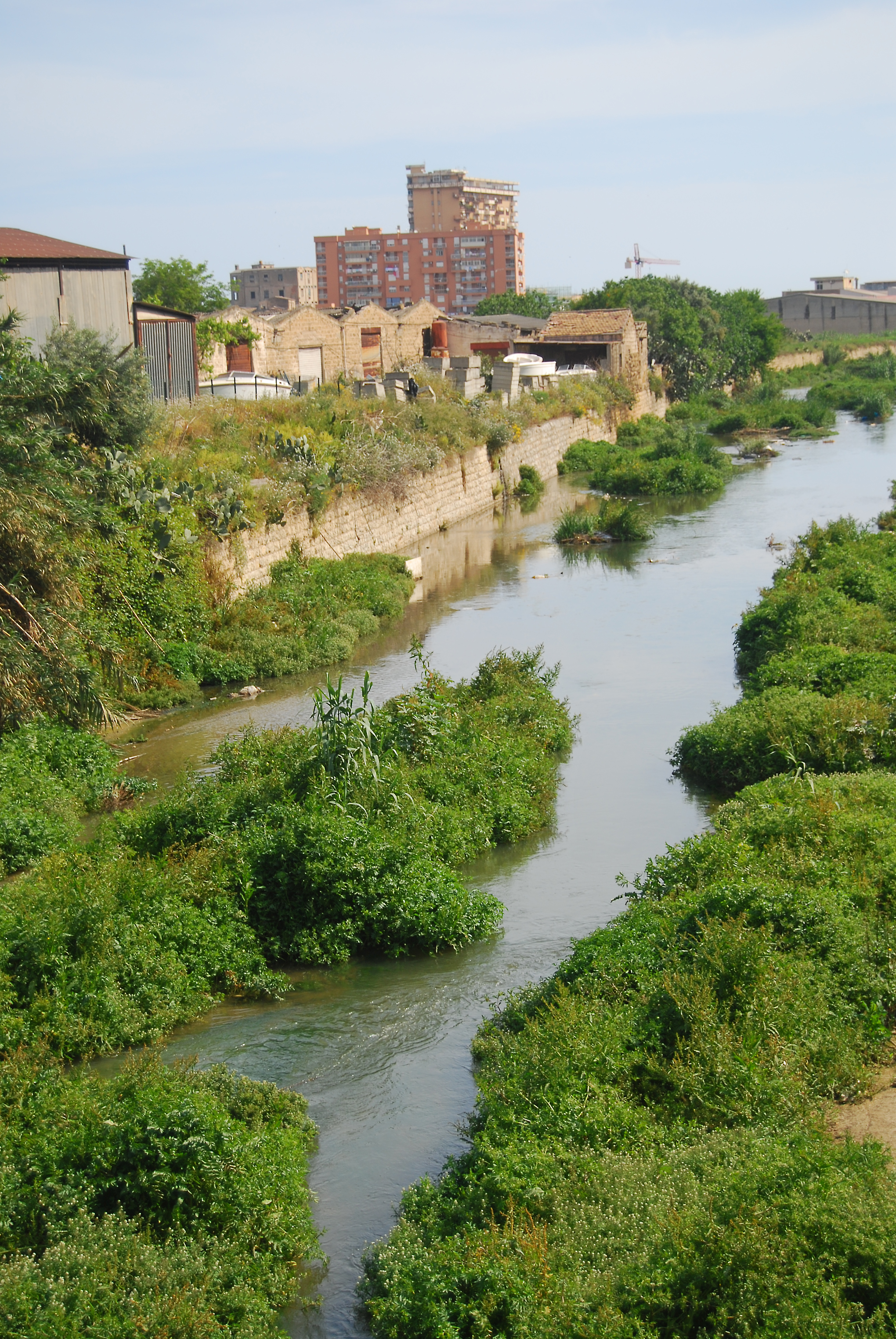 Oreto river in Palermo